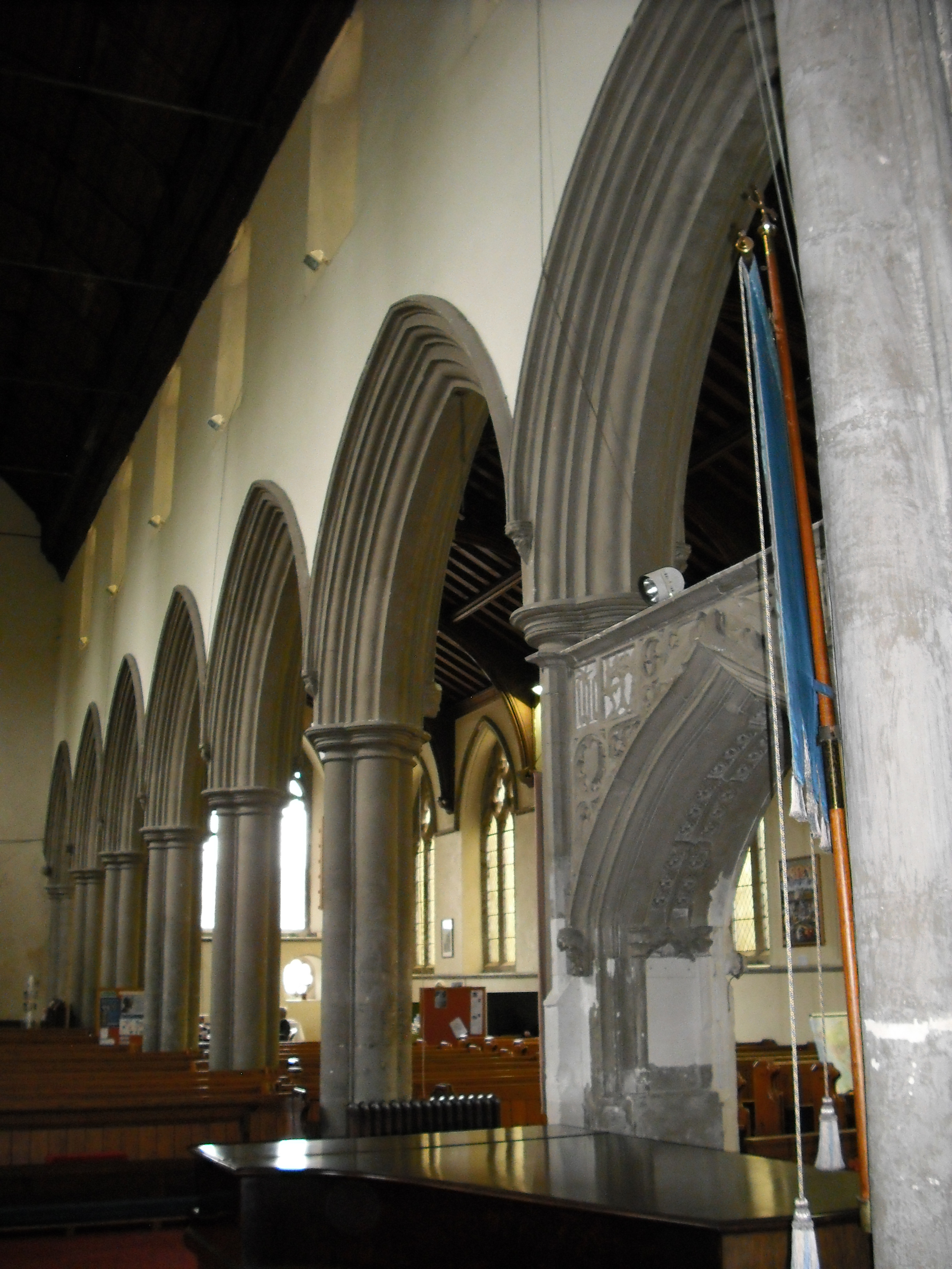 File:St Peter and St Mary's church, Stowmarket, Suffolk - nave, north arcade